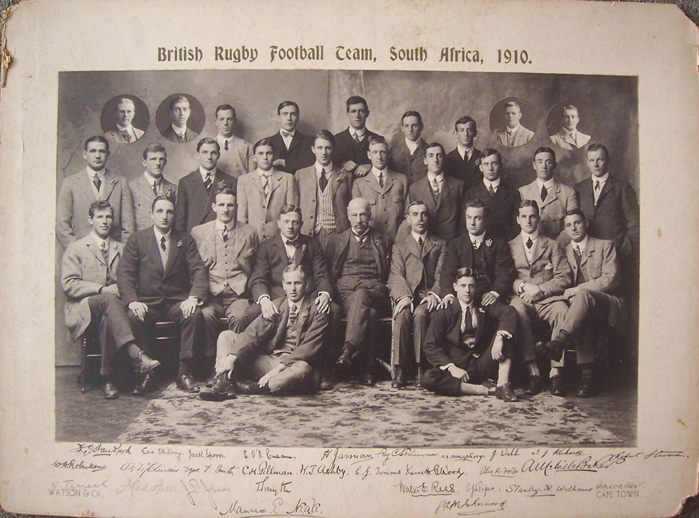 British Isles, later the British and Itish Lions, rugby union team on their tour of South Africa in 1910.